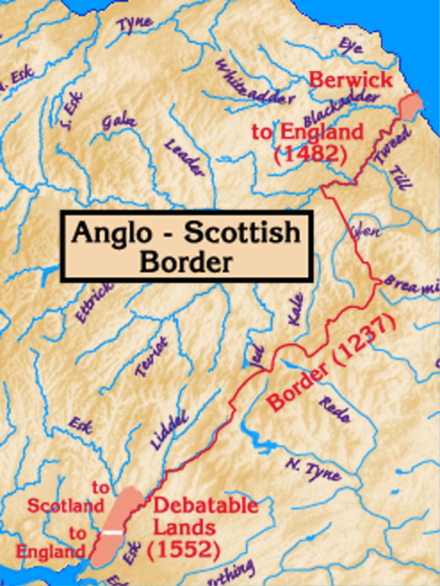 Anglo-Scottish border, with historical areas and dates (1227, 1482, 1552)